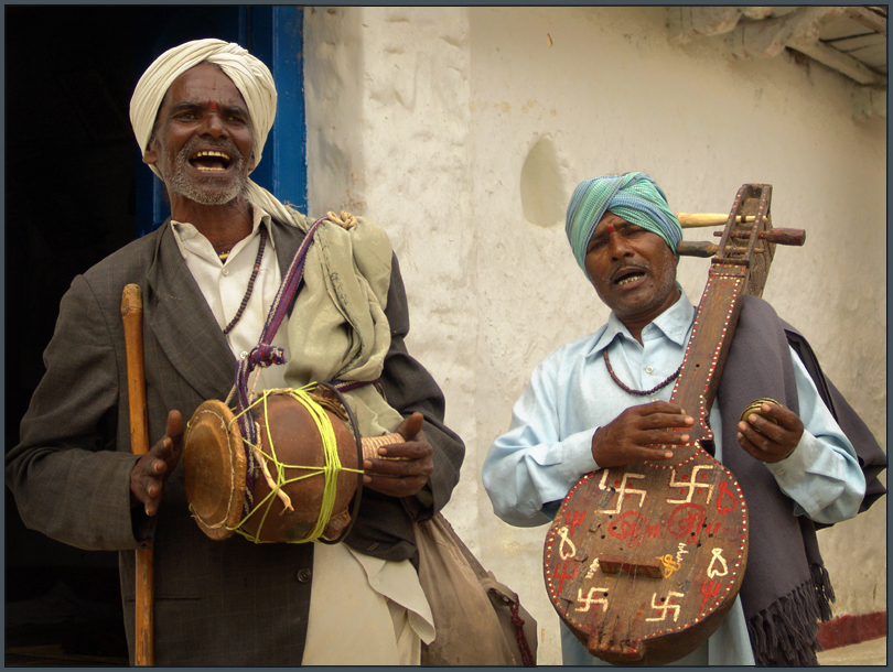 Village musicians in Hyderabad singing and playing a drum and string instrument. The latter is decorated with swastika and aum signs.